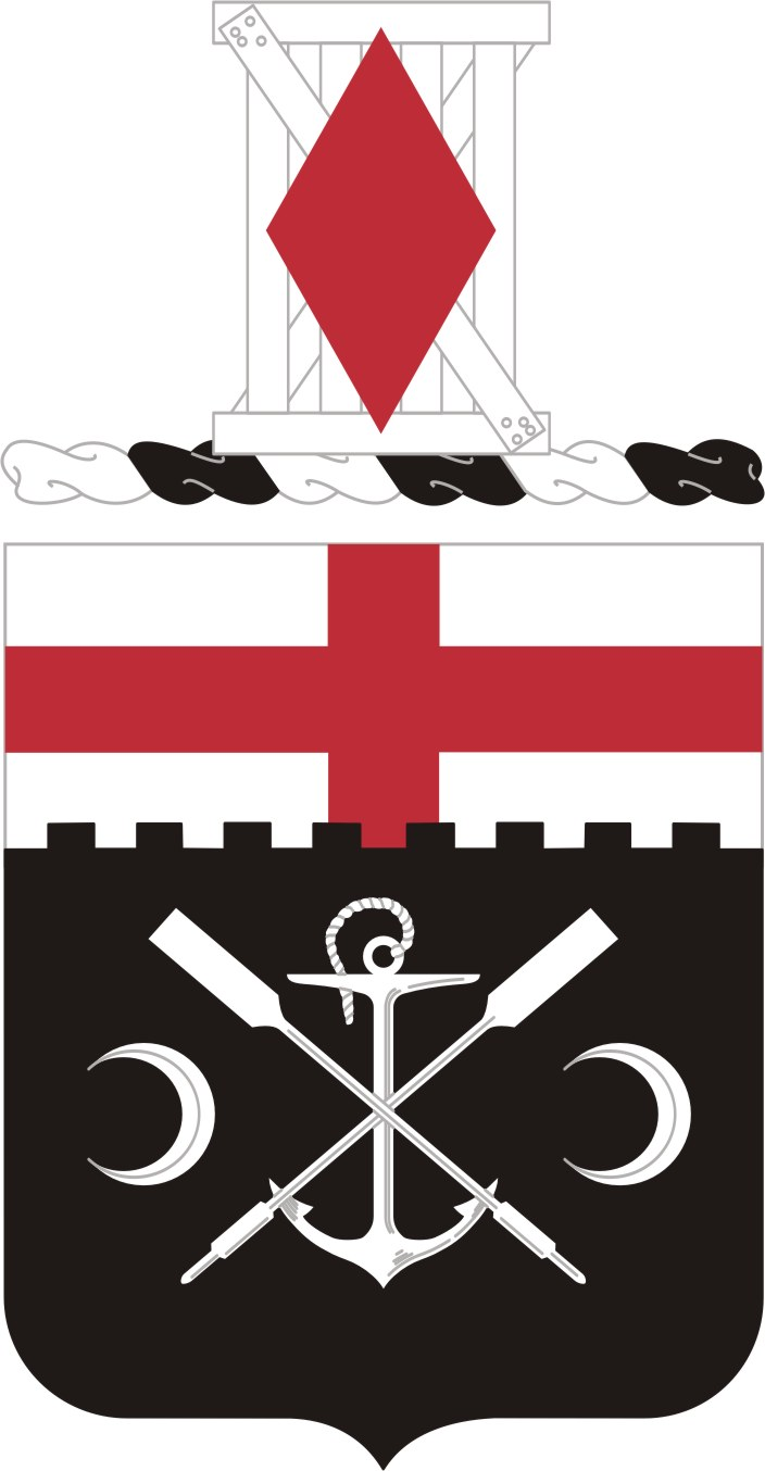 7th Engineer battlion coat of arms